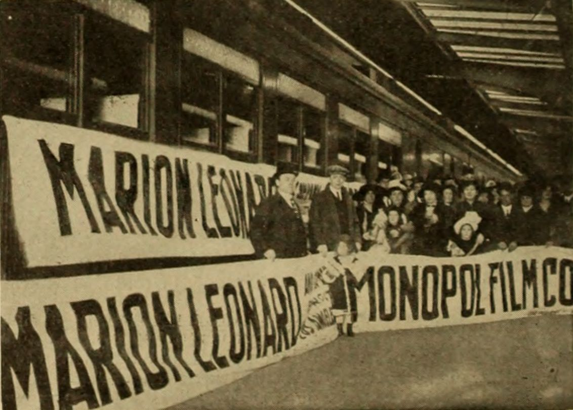 Train of Monopol Film Company upon departure from Lackawanna station, New York, 24th of November, 1912.